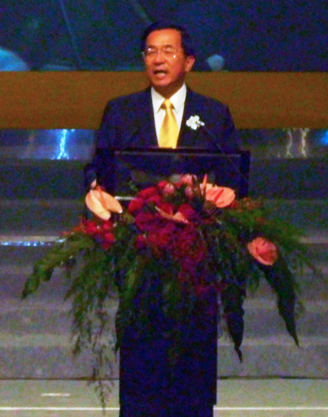 Shui-bian "A-Bian" Chen, the 10th and 11th President of Rupublic of China, Taiwan.